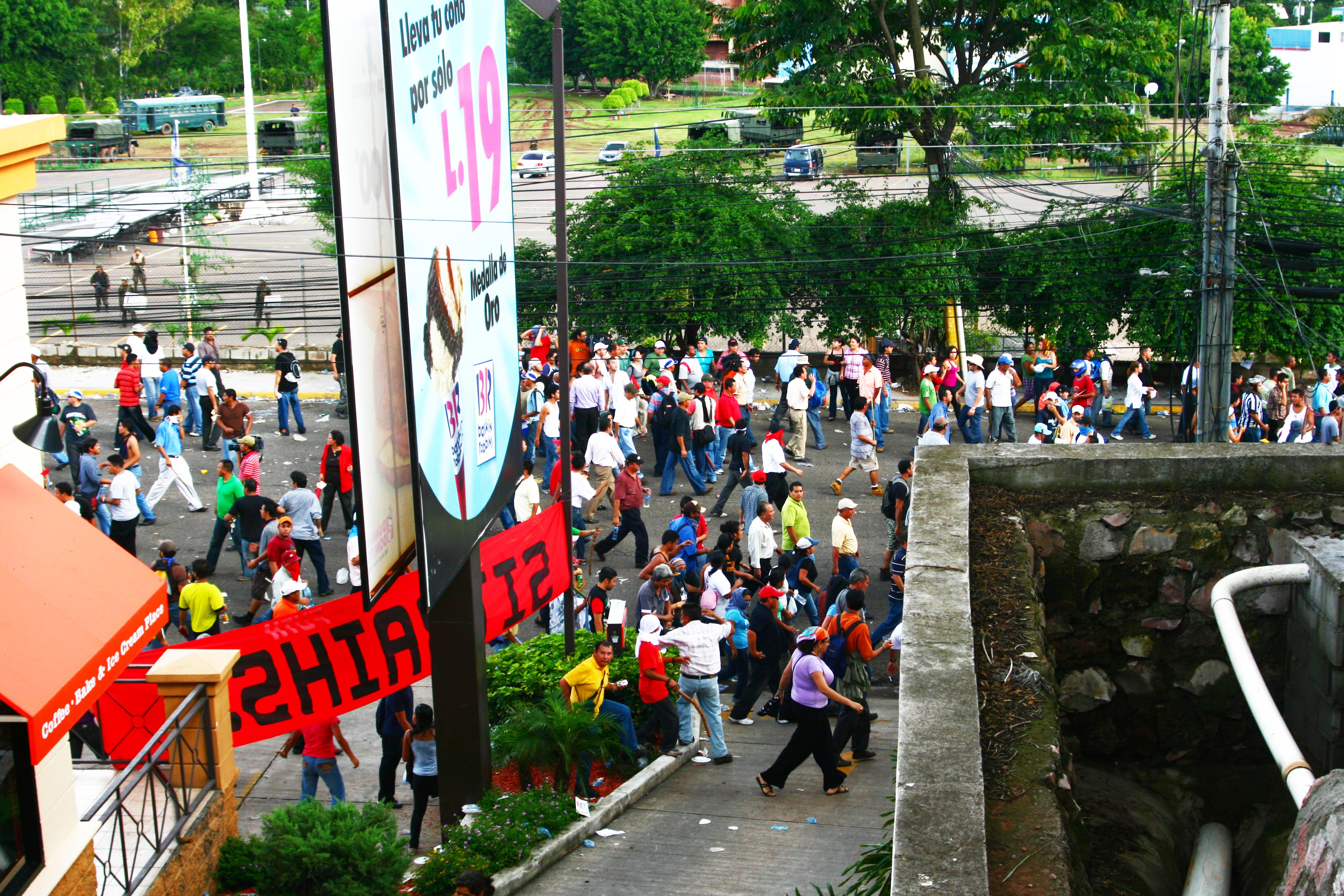 2009 Honduran coup d'état